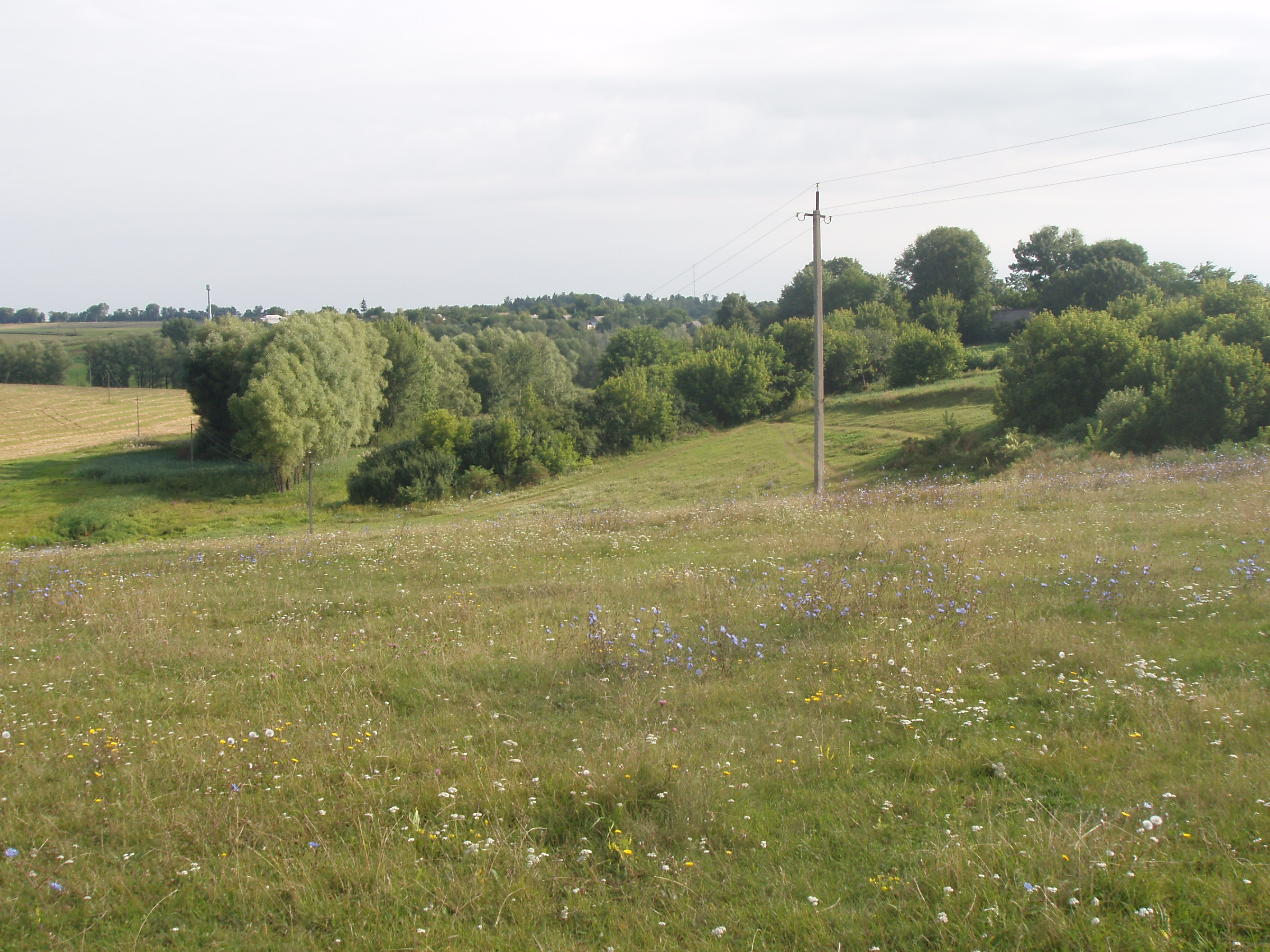 Nemirintsy Ruzhin raion Zhitomyr oblast Ukraine